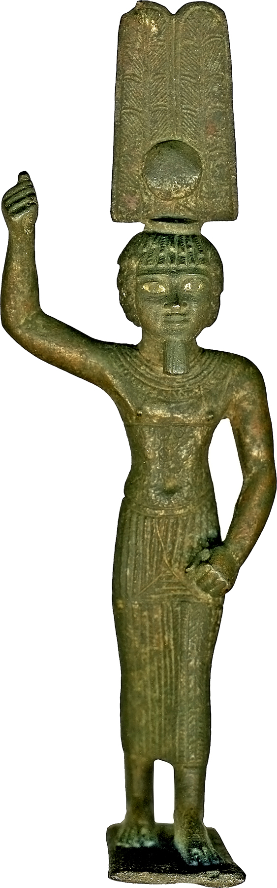 Electrum eyes. Double plume, disc. Right arm raised, left arm before body, to hold lance. Broken from base. Inscription around base.